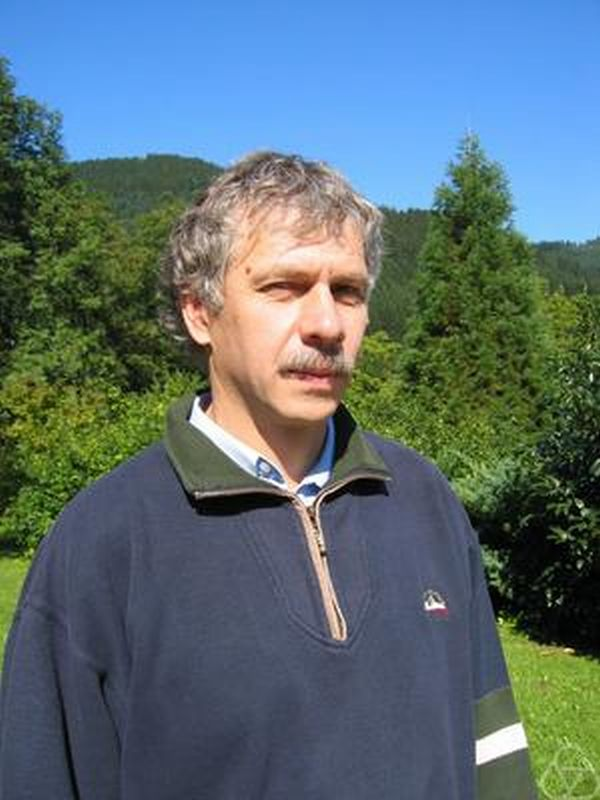 Jan Derezinski, Oberwolfach 2005